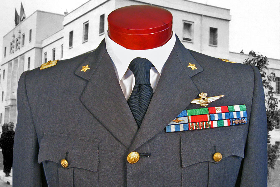 Italian Air Force Uniform of WWII